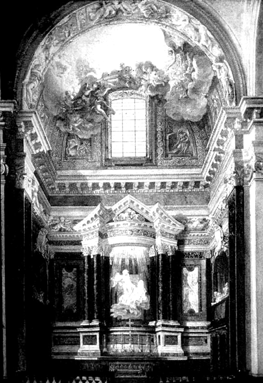 The Cornaro chapel in Santa Maria della Vittoria in Rome. B/w picture of an 18C anonymous painting.